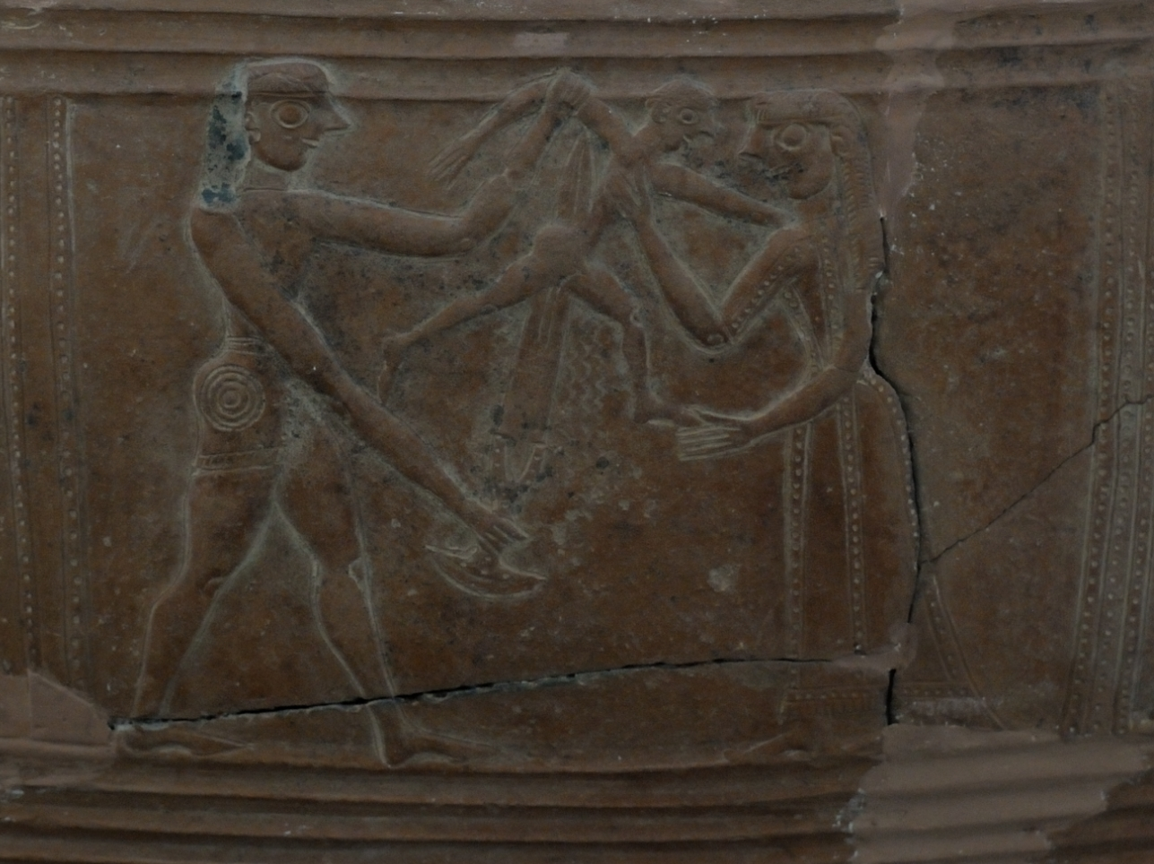 A Greek warrior kills a Trojan prince in the arms of his mother (murder of Astyanax?). Pithos with reliefs, 675-650 BC. Archaeology Museum, Mykonos.